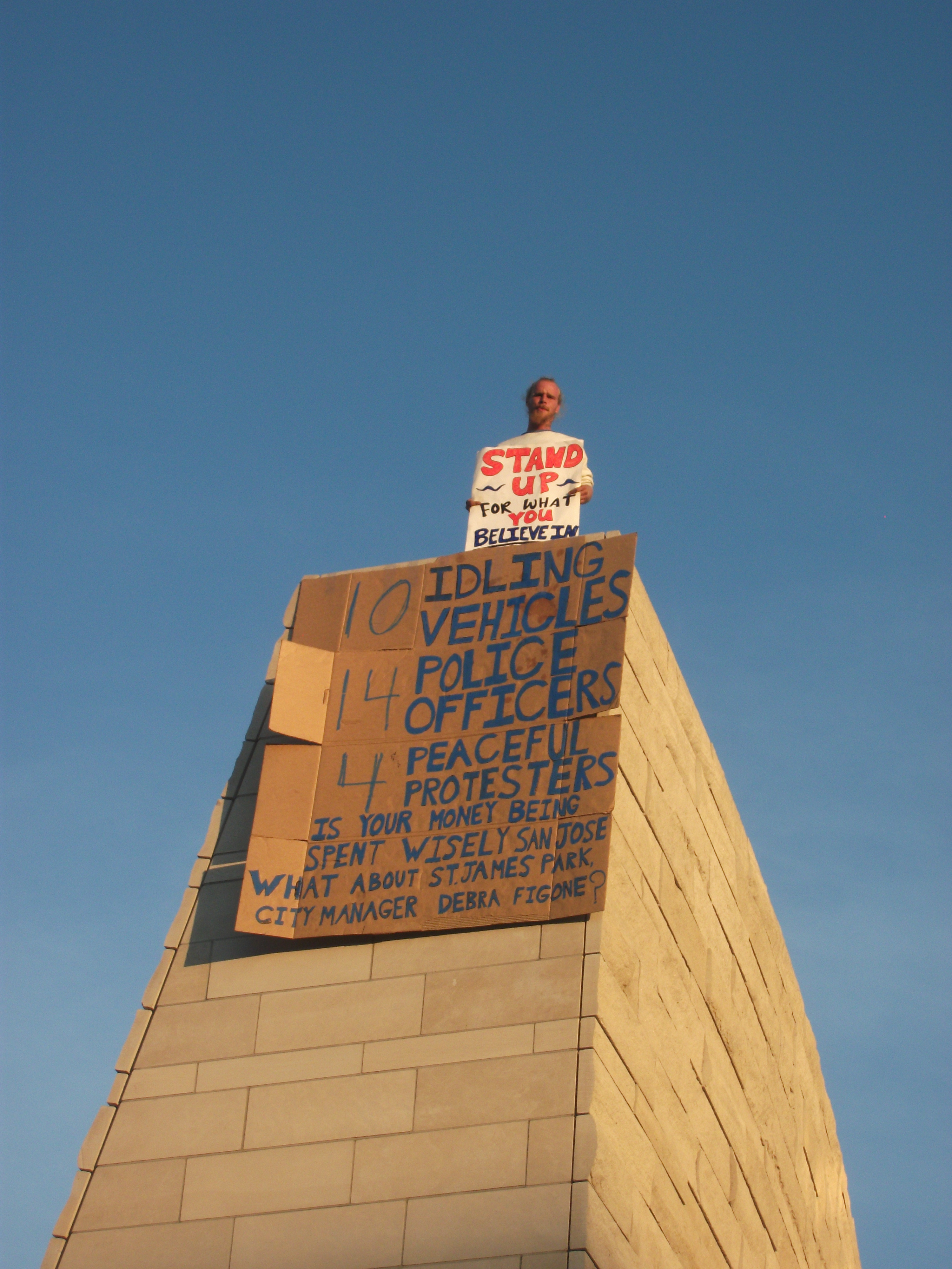 I took this photo.